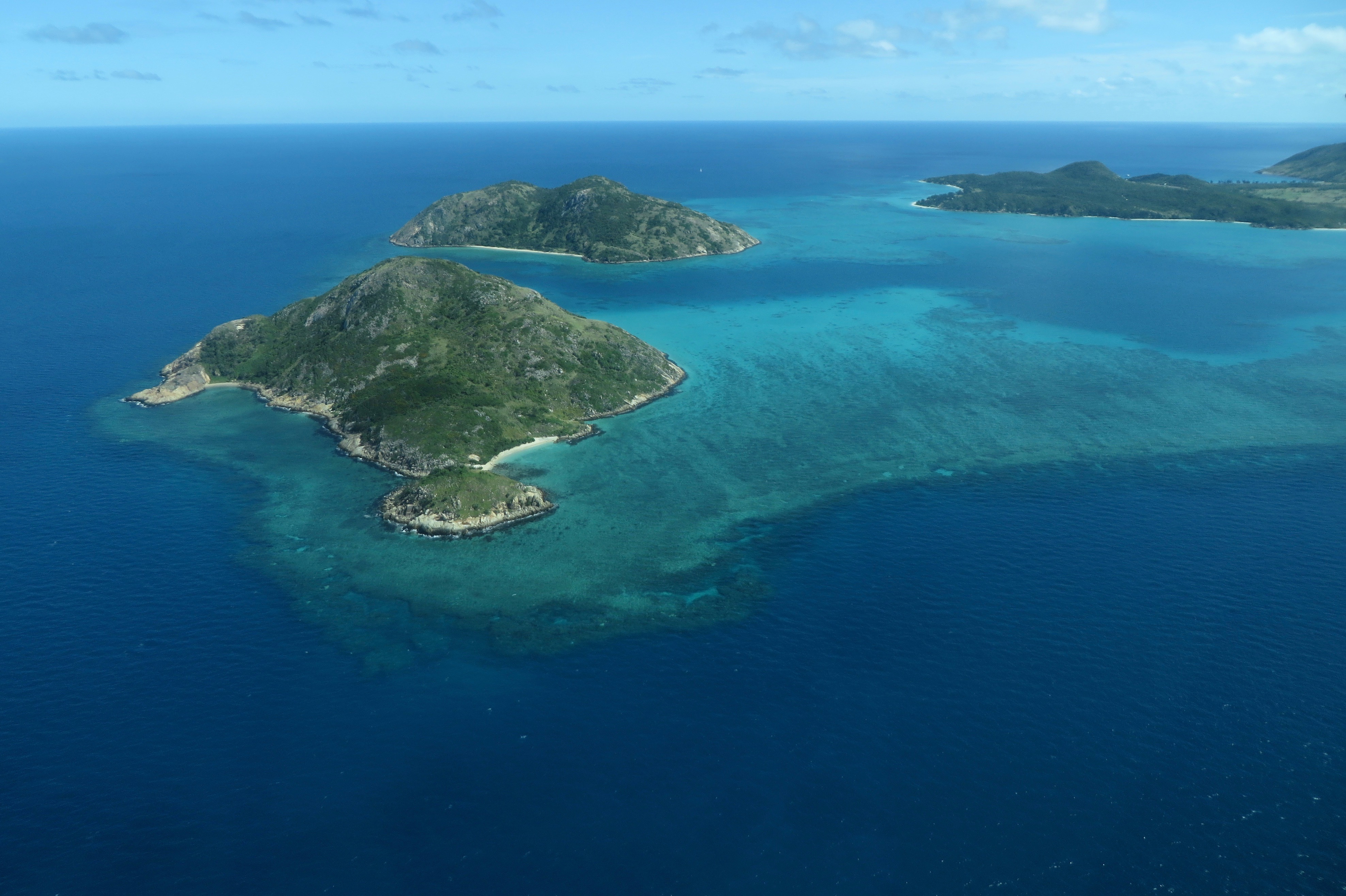 Great Barrier Reef, a natural heritage site in Queensland